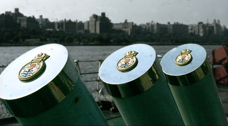 Mortar tampions